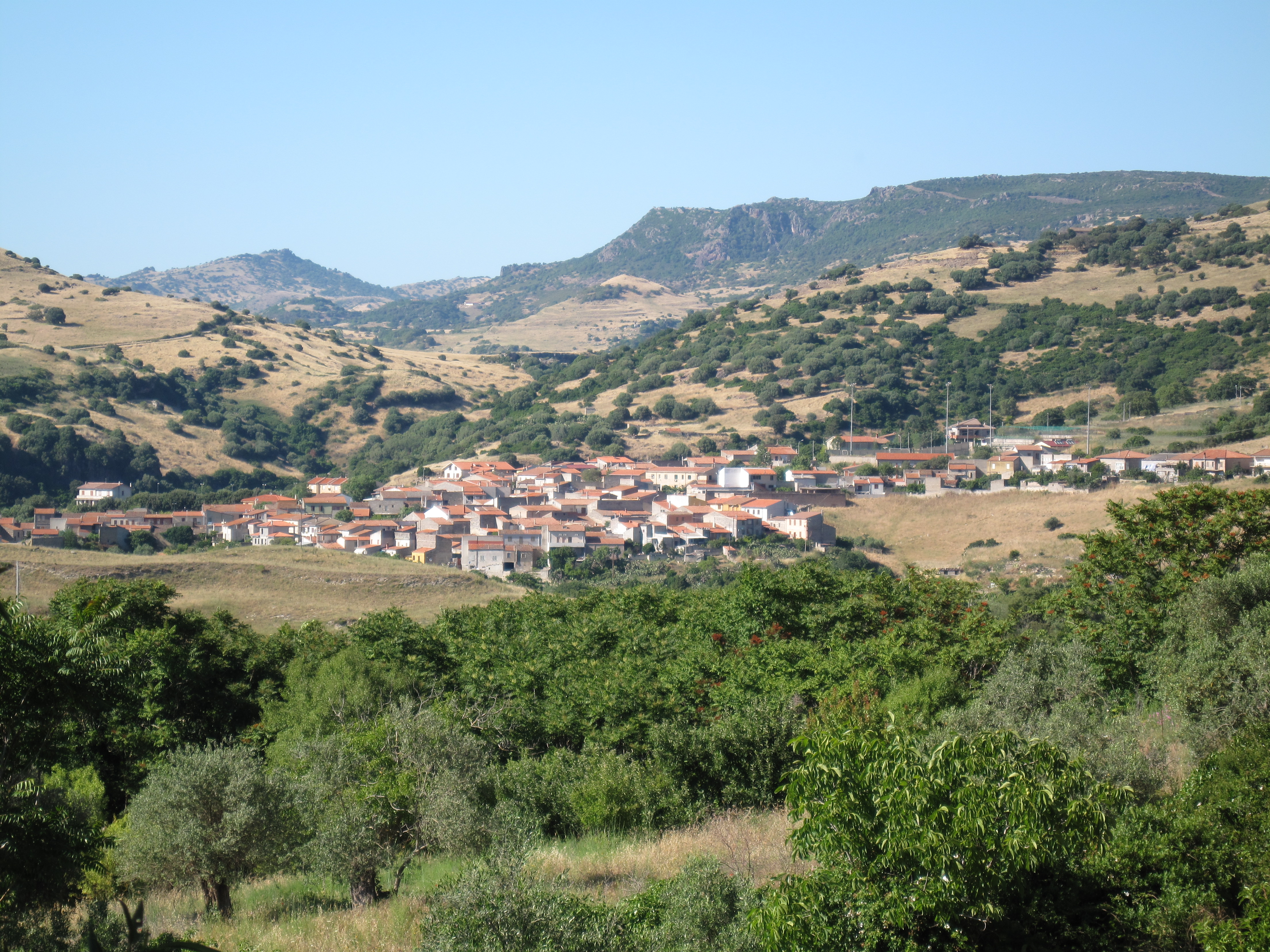 Sardinian village of Mara from Padria